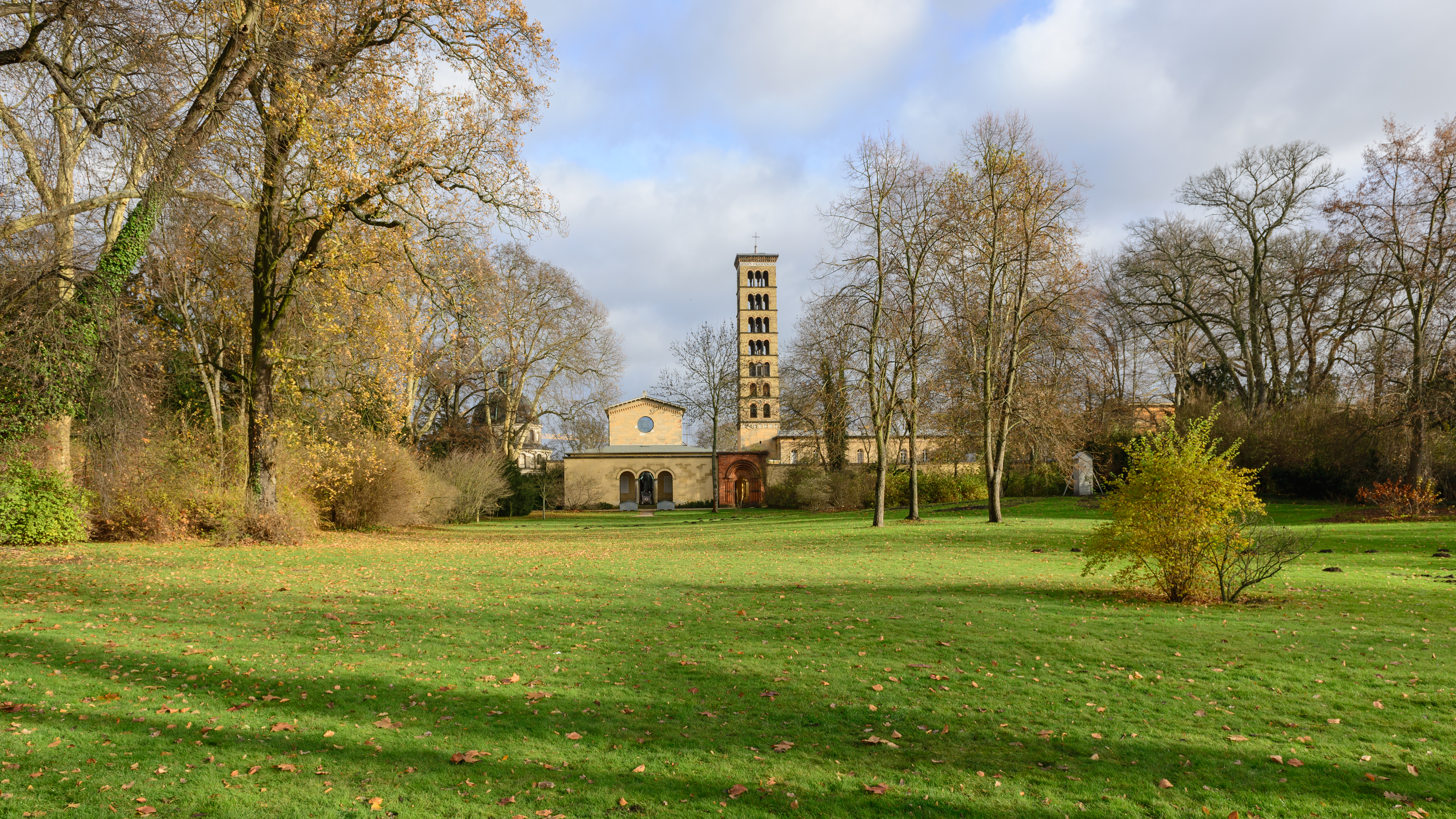 Marly garden in Schloßpark Sanssouci.